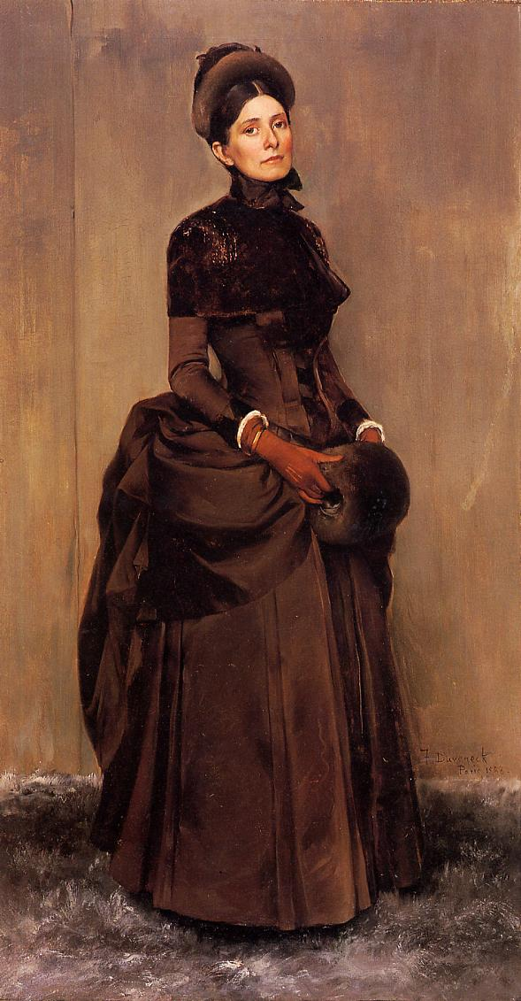 Elizabeth Boott Duveneck in bustled 1880's black dress, holding muff.